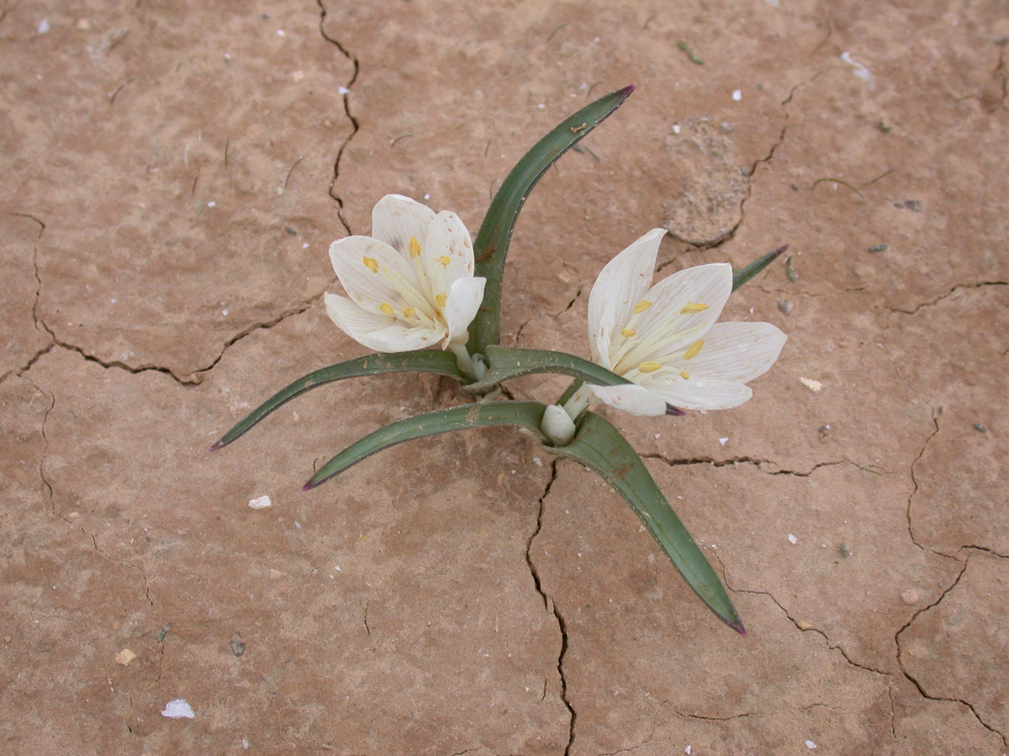 Colchicum ritchii R.Br. (סתוונית הנגב), Northern Negev, Israel, January 12, 2007.